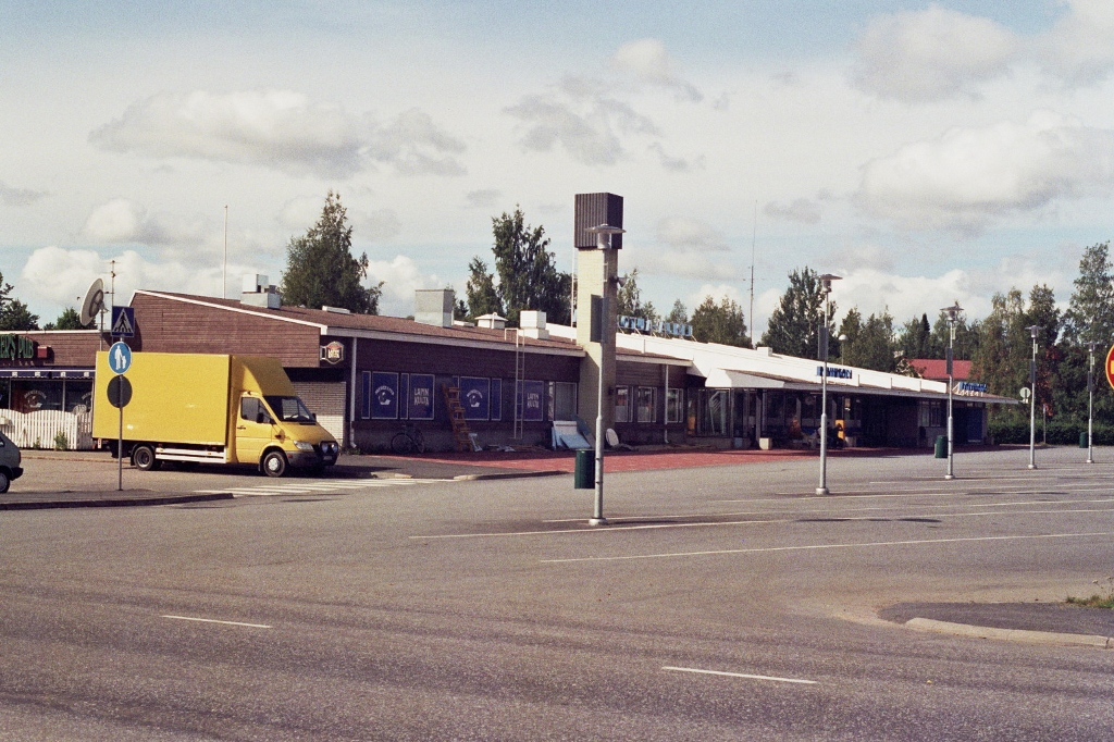 The bus station of Huittinen in Finland.